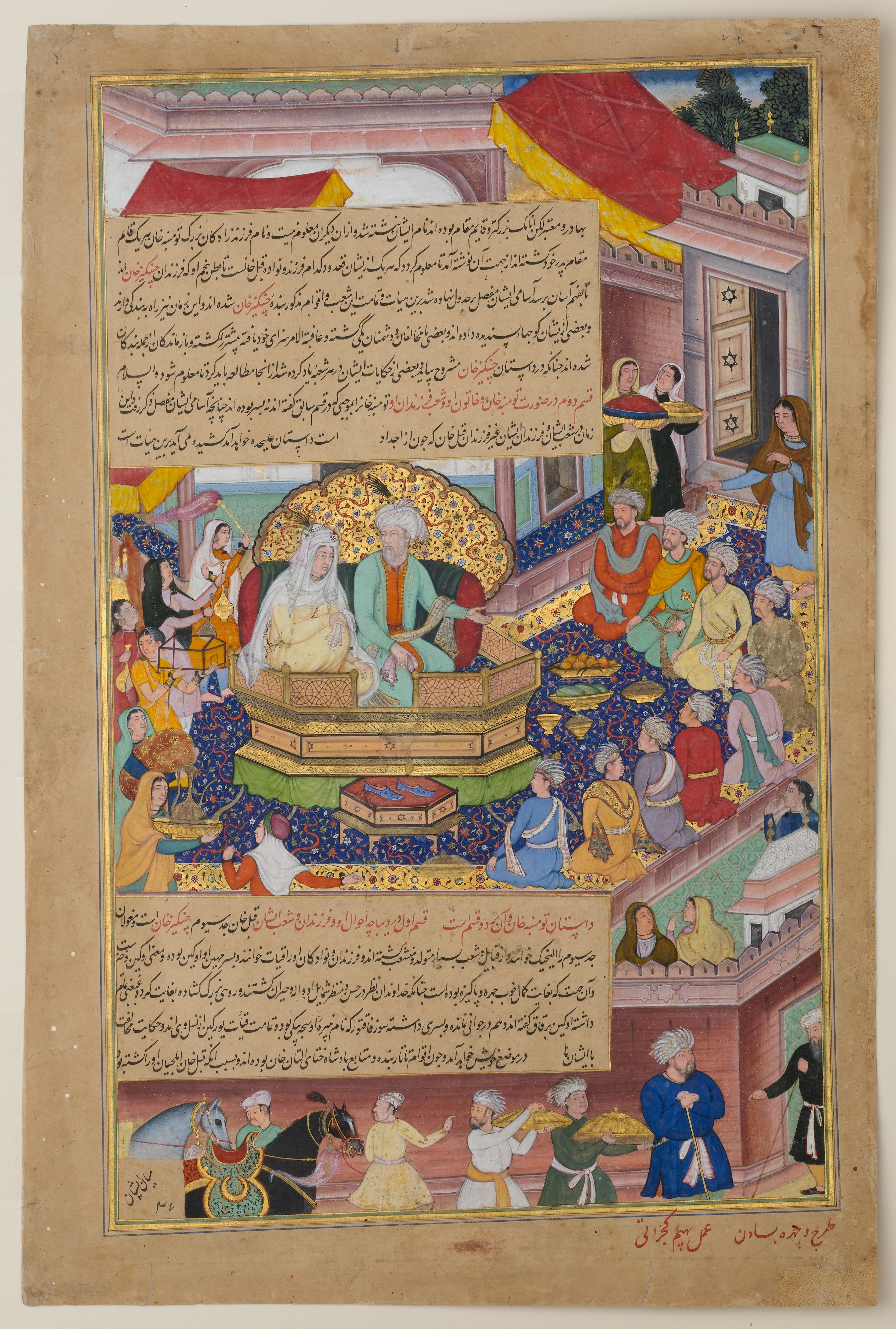 "Tumanba Khan, His Wife, and His Nine Sons", Folio from a Chingiznama (Book of Genghis Khan)